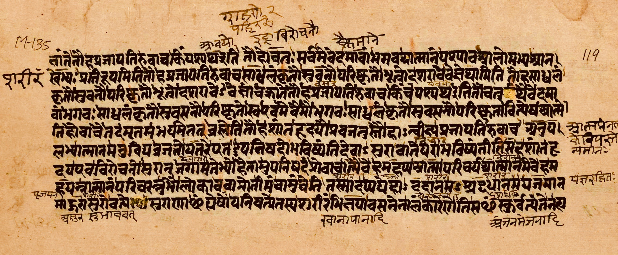 The early Upanishads (Upanisad, Upanisat) are scriptures of Hinduism. Variously dated by scholars to have been composed between 900 BCE to about 200 BCE, these texts are in Sanskrit language and embedded within a layer of the Vedas. They contain a mixture of philosophy and mystical speculations, many set in the form of dialogues or pedagogic style. Their central teachings include the concepts of Atman (soul, self) and Brahman (metaphysical reality). The above image is from a Chandogya Upanishad manuscript. It is the second oldest known Upanishads, dated to between 900 to 600 BCE (pre-Buddhist era). These manuscripts are preserved at the Lalchand Research Library, Ancient Indian Manuscript Collection, DAV College Digital Library Initiative, Chandigarh India, in association with SP Lohia and Indorama Charitable Trust. The texts are over 2000 years old, the re-copying into this particular manuscript is dated to an 1865 CE (1922 V.S. or Vikram Samvat) reproduction. The manuscript shows decay and damage on the sides and its edges. Language: Sanskrit Script: Devanagari Script style: pre-14th century (Northern / Western) The photo above is of a 2D artwork of a text that is over 2,500 years old, from a manuscript that was produced decades before 1923. Therefore Wikimedia Commons PD-Art licensing guidelines apply. Any rights I have as a photographer is herewith donated to wikimedia commons under CC 4.0 license.